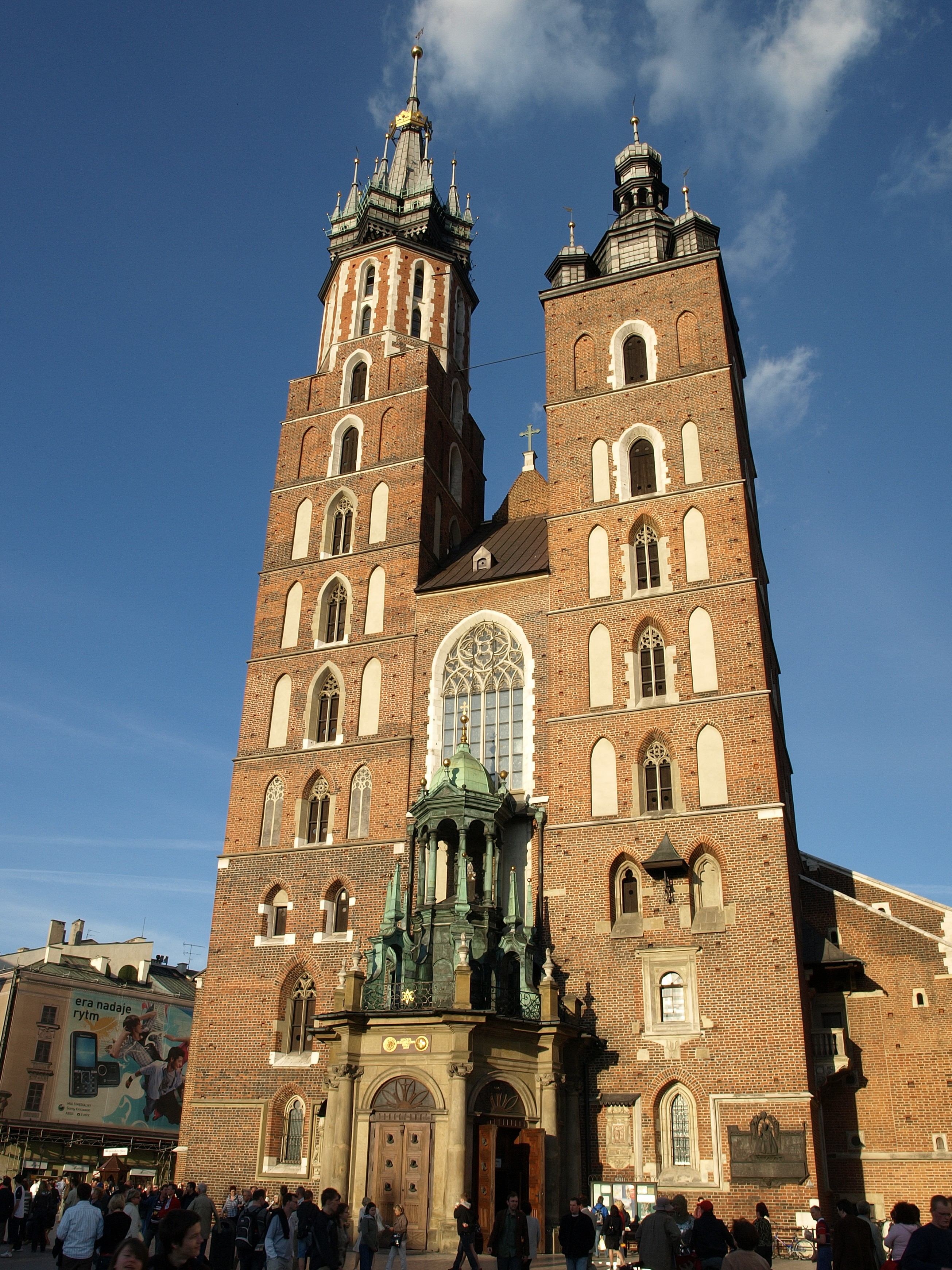 The front of the Mariacki church in Cracow